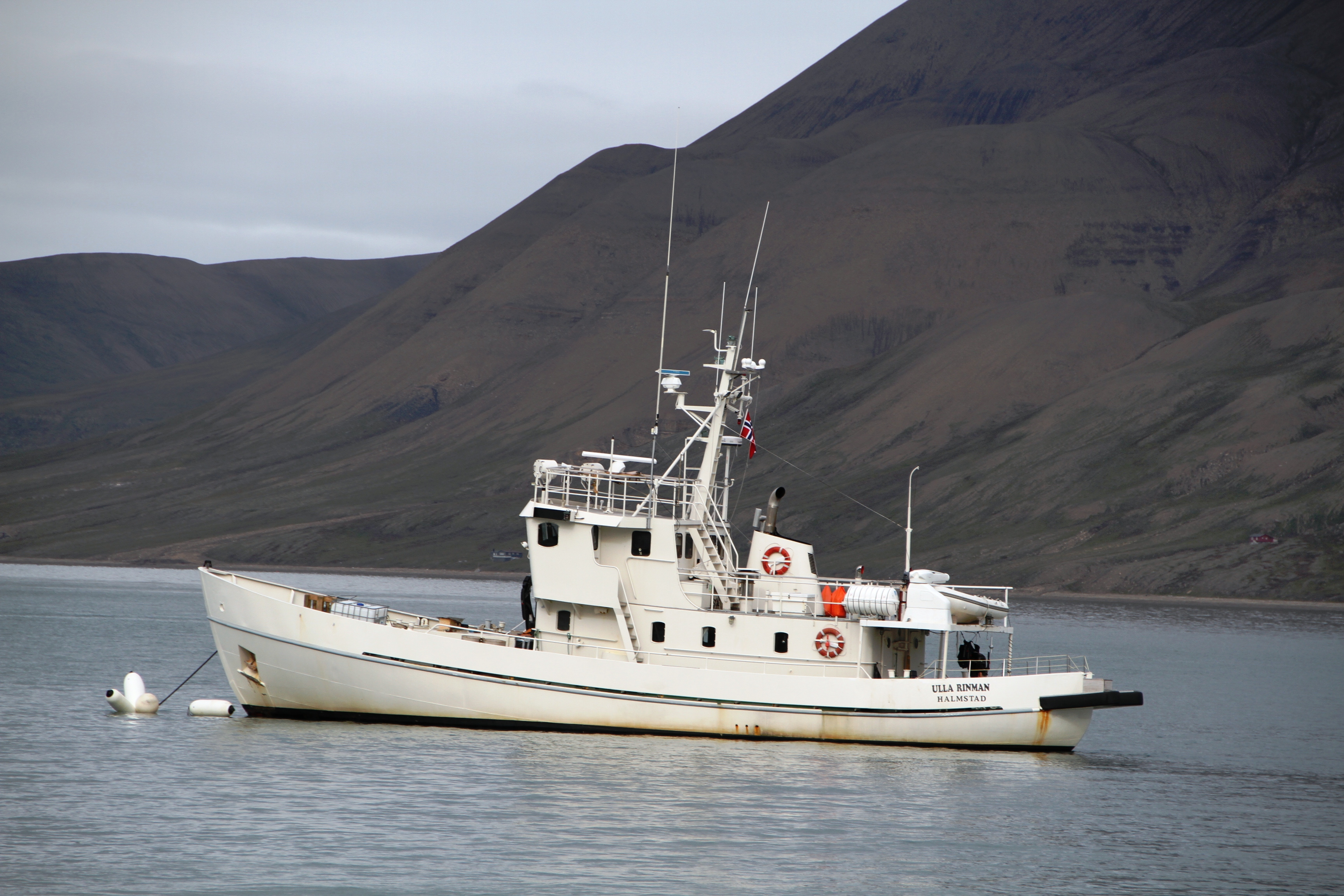 The private, swedish arctic vessel "Ulla Rinman", in Adventfjorden Ba, Spitsbergen (Norway). The ship is registered in Halmstad (Sweden), and was built in 1970.